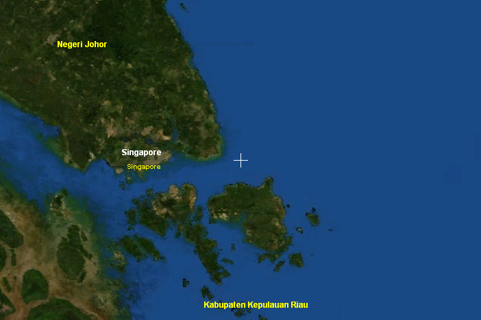 Satellite map of Pedra Branca, South China Sea island